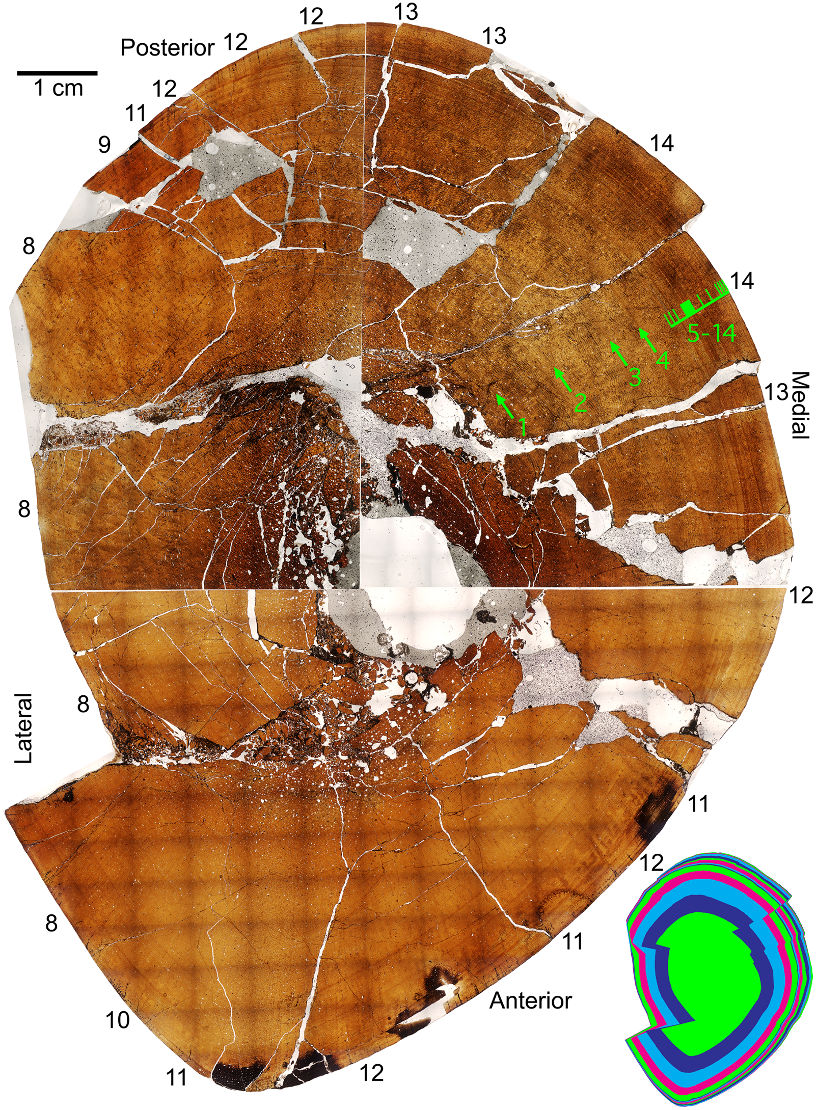 Tibial histology of Probrachylophosaurus MOR 2919, mid-diaphyseal cross-section. Numbered green arrows identify lines of arrested growth (LAGs). The closely spaced outer LAGs are indicated with tick marks along a green line. Numbers around the circumference of the cross-section indicate the number of LAGs preserved in that radial segment of the tibia. Note that diagenetic crushing has displaced several segments radially inward. Thumbnail image in lower right corner colors the area between each pair of LAGs to highlight locations of radial displacement as well as to indicate bone deposition between later LAGs occurring primarily along the posteromedial region. A high-resolution version of this figure is available at